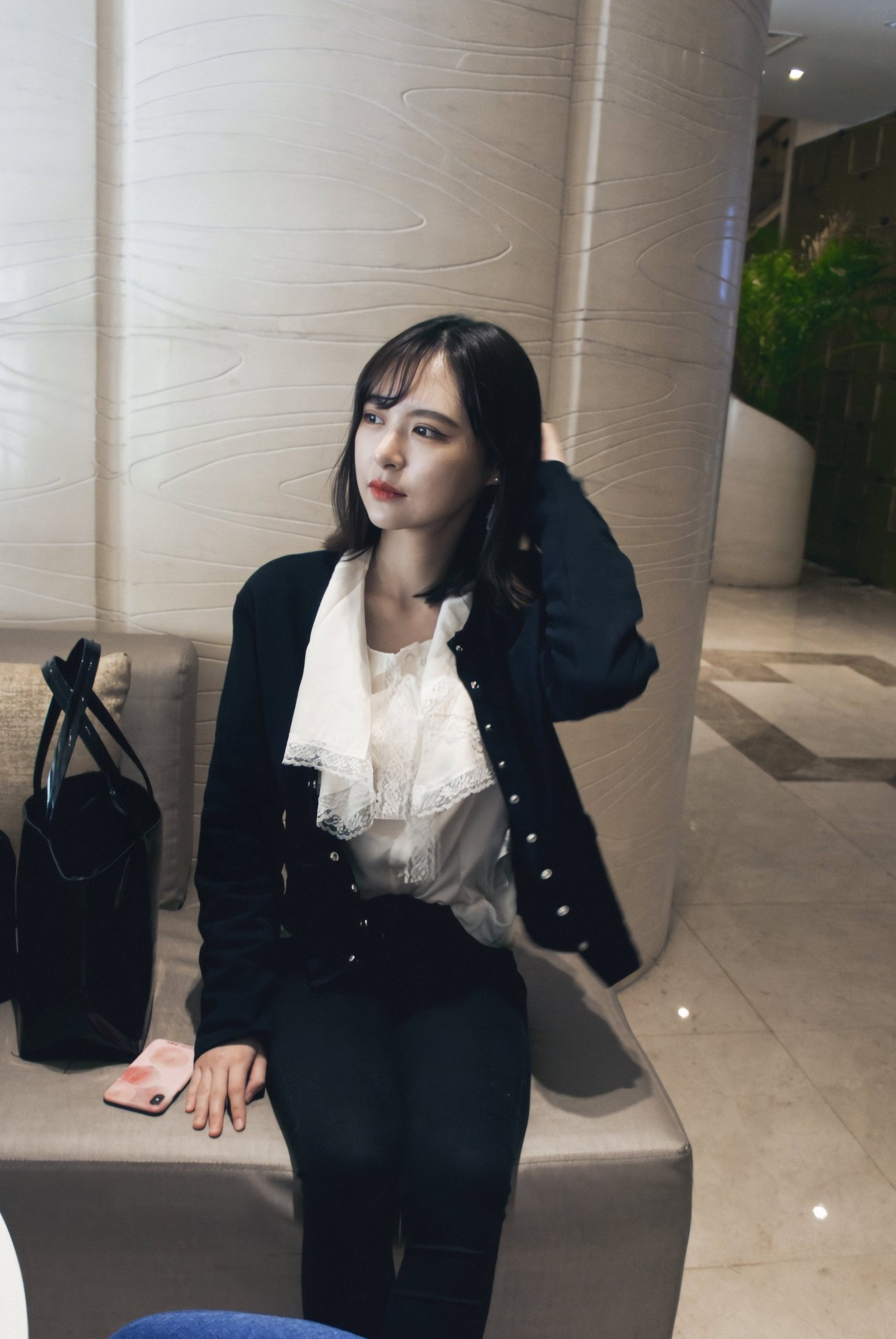 photo at the hotel lobby near Bird Nest, Beijing, China